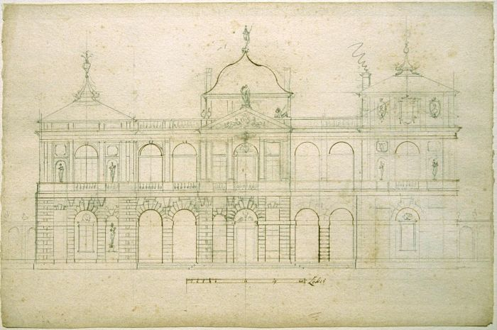 Sandomierski Palace (later Brühl Palace) in Warsaw